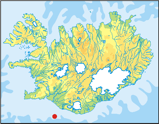 Location of Surtsey in Iceland